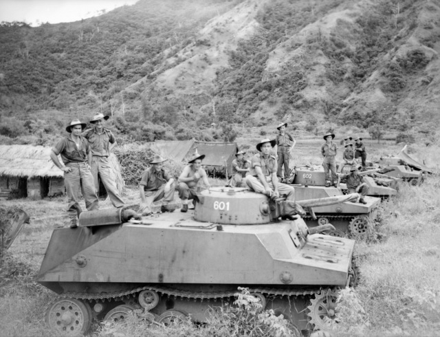 Australian War Memorial (AWM) catalog number 096634 Sourced from: Copyright: The AWM record for this photo states that the copyright status is 'clear'. The photo was taken in 1945. Higher resolution images may be ordered through the AWM (Source: email from the AWM to Nick Dowling 6 January 2006). AWM Caption: RABAUL, NEW BRITAIN. 1945-09-14. NUMEROUS TYPE 2 KA-MI AMPHIBIOUS TANKS CAPTURED AT RABAUL. RIGHT SIDE VIEW SHOWING NUMBERS ON THE TURRETS AND WITHOUT FLOTATION PODS AFFIXED (PODS AT FRONT AND REAR JETTISONED ONCE ON LAND). THESE JAPANESE LIGHT TANKS ARE BEING GUARDED BY TROOPS OF 37/52 INFANTRY BATTALION WHO ARE OCCUPYING THE AREA FOLLOWING THE SURRENDER OF THE JAPANESE. THE TANKS ARE IN THE AREA BETWEEN LAKUNAI AIRSTRIP AND RABAUL TOWNSHIP. The copyright has expired on this image. Higher resolution versions of this image may be ordered through the AWM Website at